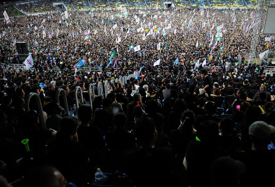 Supporters listen to speeches during Thousands of Malaysians dressed in mourning black gathered to denounce elections which they claim were stolen through fraud by the coalition that has ruled for 56 years. in Penang May 11 2013. Pix Firdaus Latif